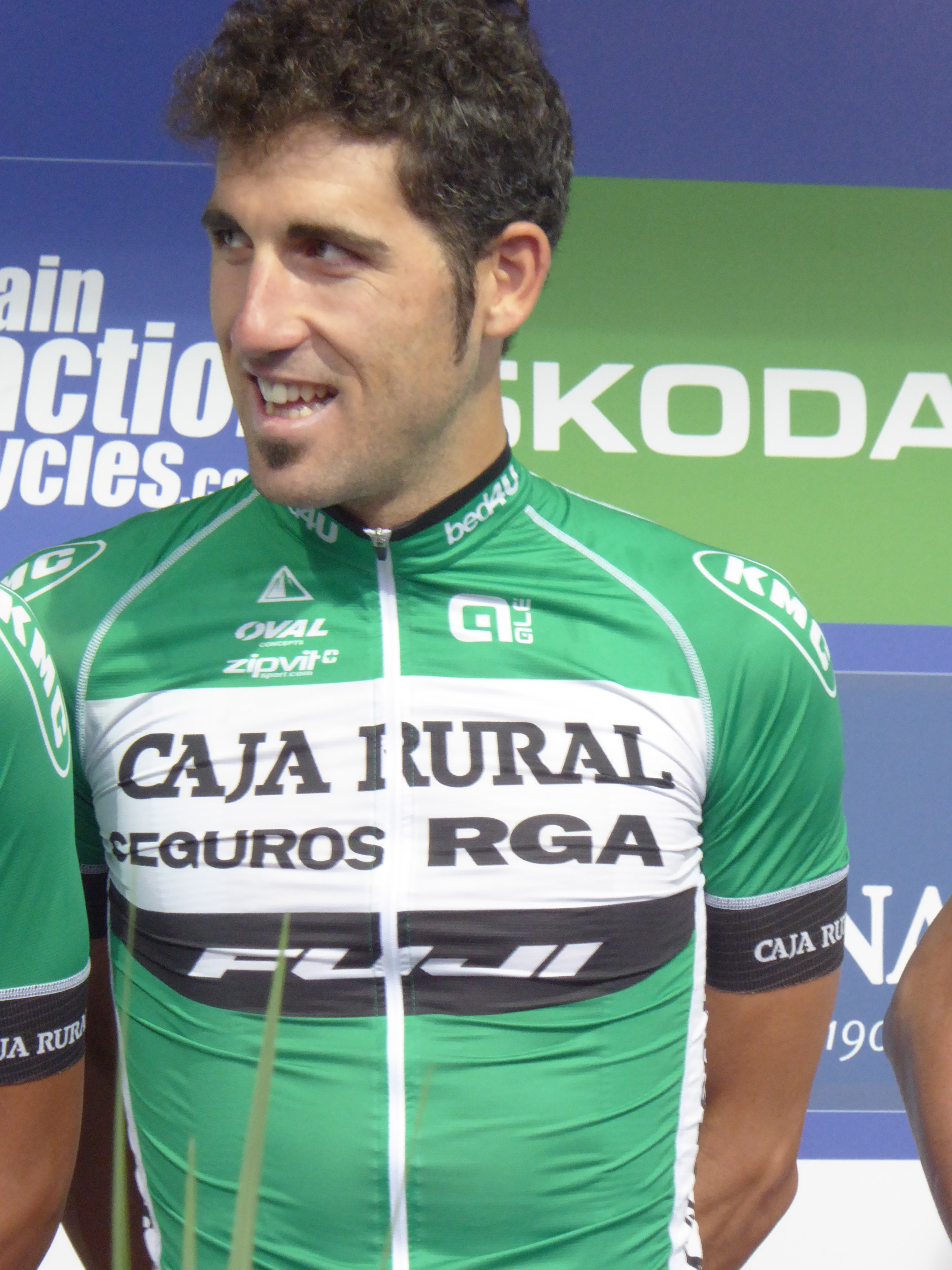 Javier Aramendia (Caja Rural-Seguros RGA), pictured at the 2016 Tour of Britain team presentation in Glasgow on 3 September 2016.